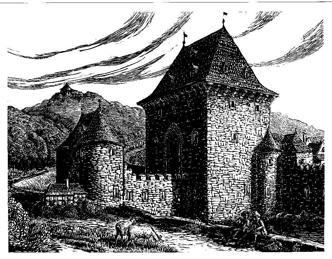 Ponttor, Aachen